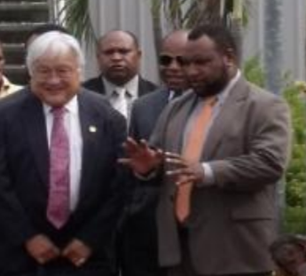 US Congressman Mike Honda (left) meeting Papua New Guinea Finance Minister James Marape (right) at Jackson International Airport in Port Moresby in 2012